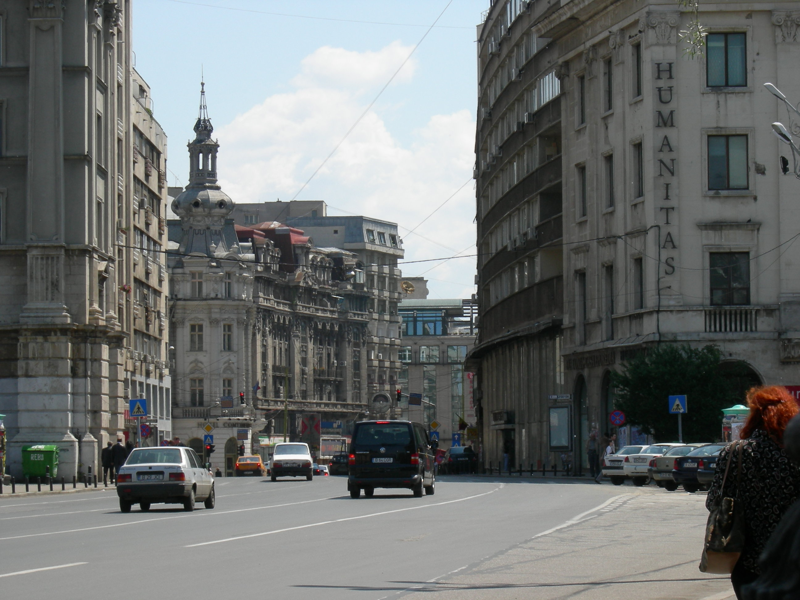 Looking south on Calea Victoriei, Bucharest, Romania from in front of the national art museum (former royal palace). The tower and finial near the center is the Hotel Continental